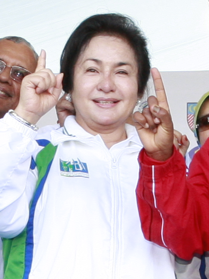 Datin Paduka Seri Rosmah Mansor, the First Lady of Malaysia, at the awards ceremony of KL Marathon 2010